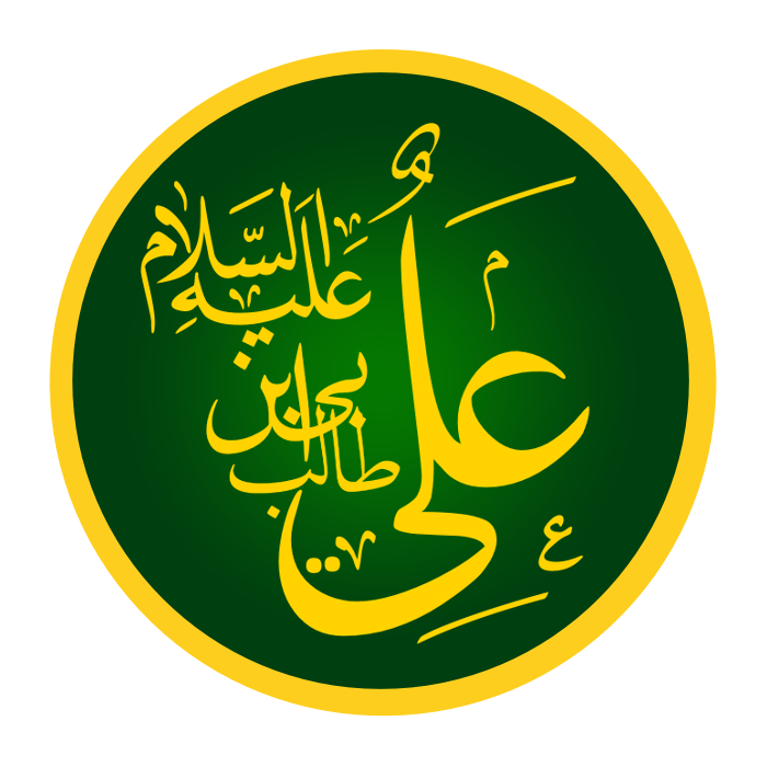 Arabic text with the name of Ali ibn Abi Talib